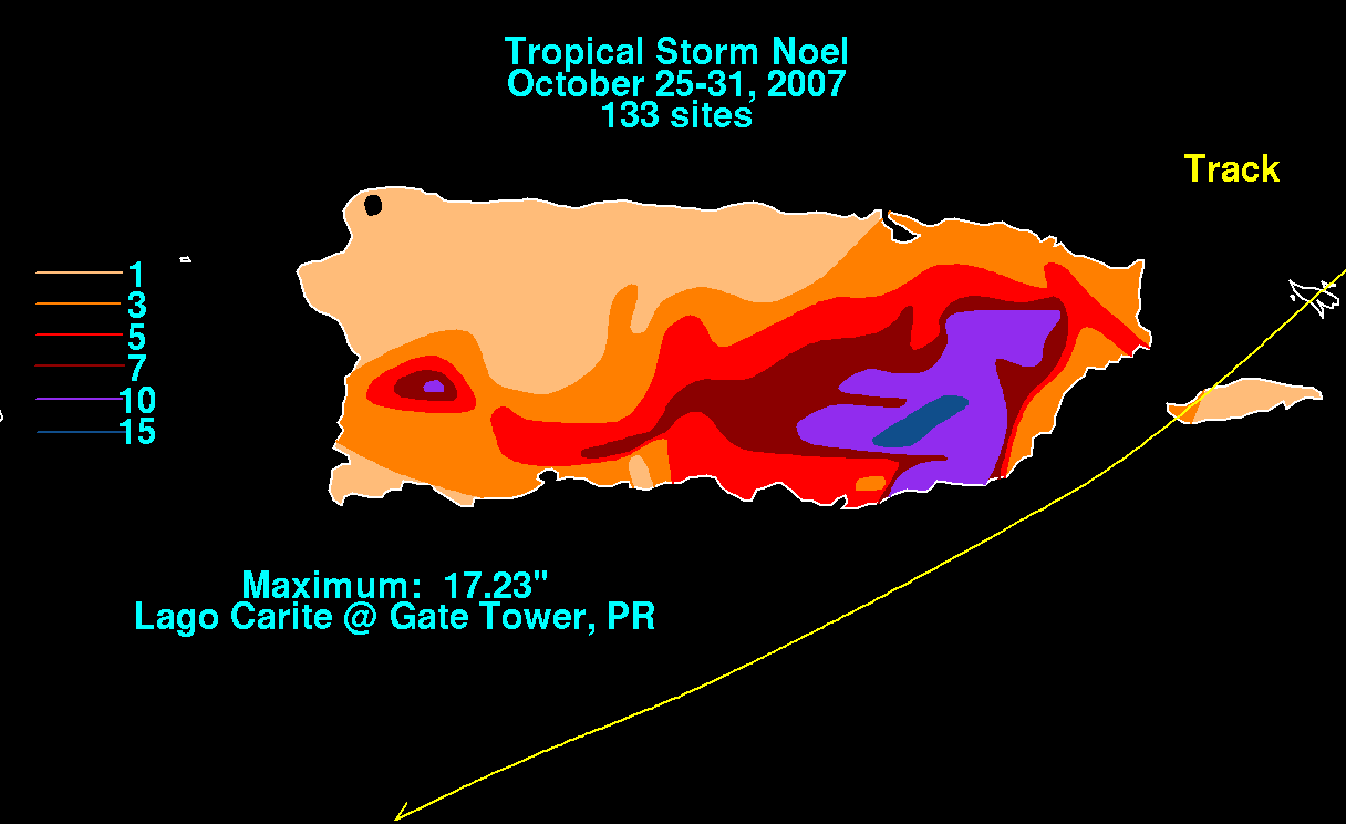 Storm total rainfall map of Hurricane Noel in Puerto Rico during October 2007.